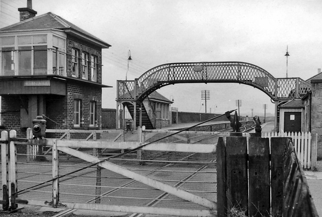 Bonnyrigg Station. View SW, towards Hawthornden; ex-NBR Edinburgh - Hawthornden Penicuik/Peebles and Galashiels lines. The line to Peebles and Galashiels was closed on 5/2/62 but the Penicuik branch lasted until 27/3/67, Bonnyrigg station having closed to passengers on 10/9/62 (10 days before this photograph), and to goods on 25/1/65.